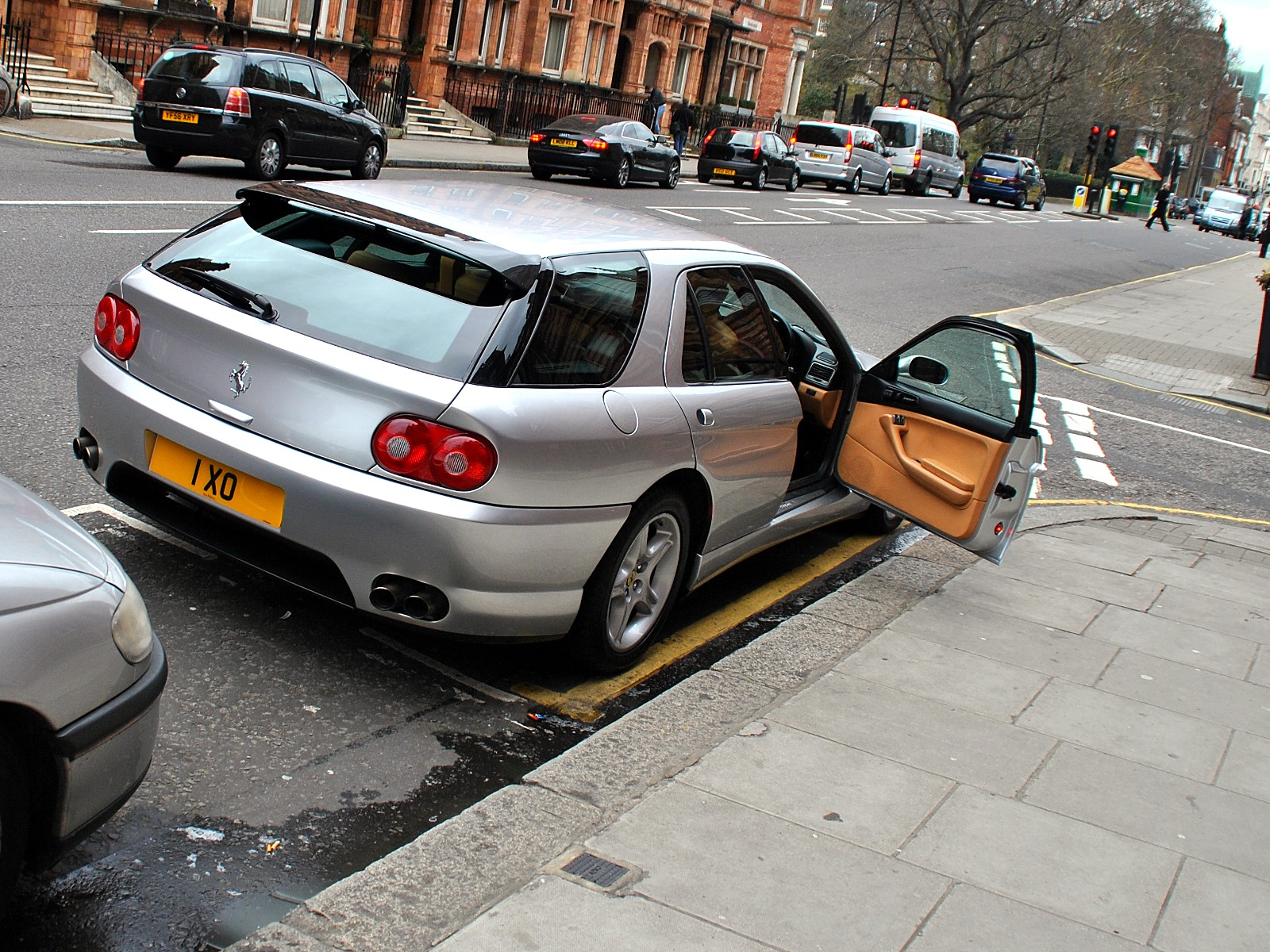 Ferrari 456 GT Venice, pictured in London